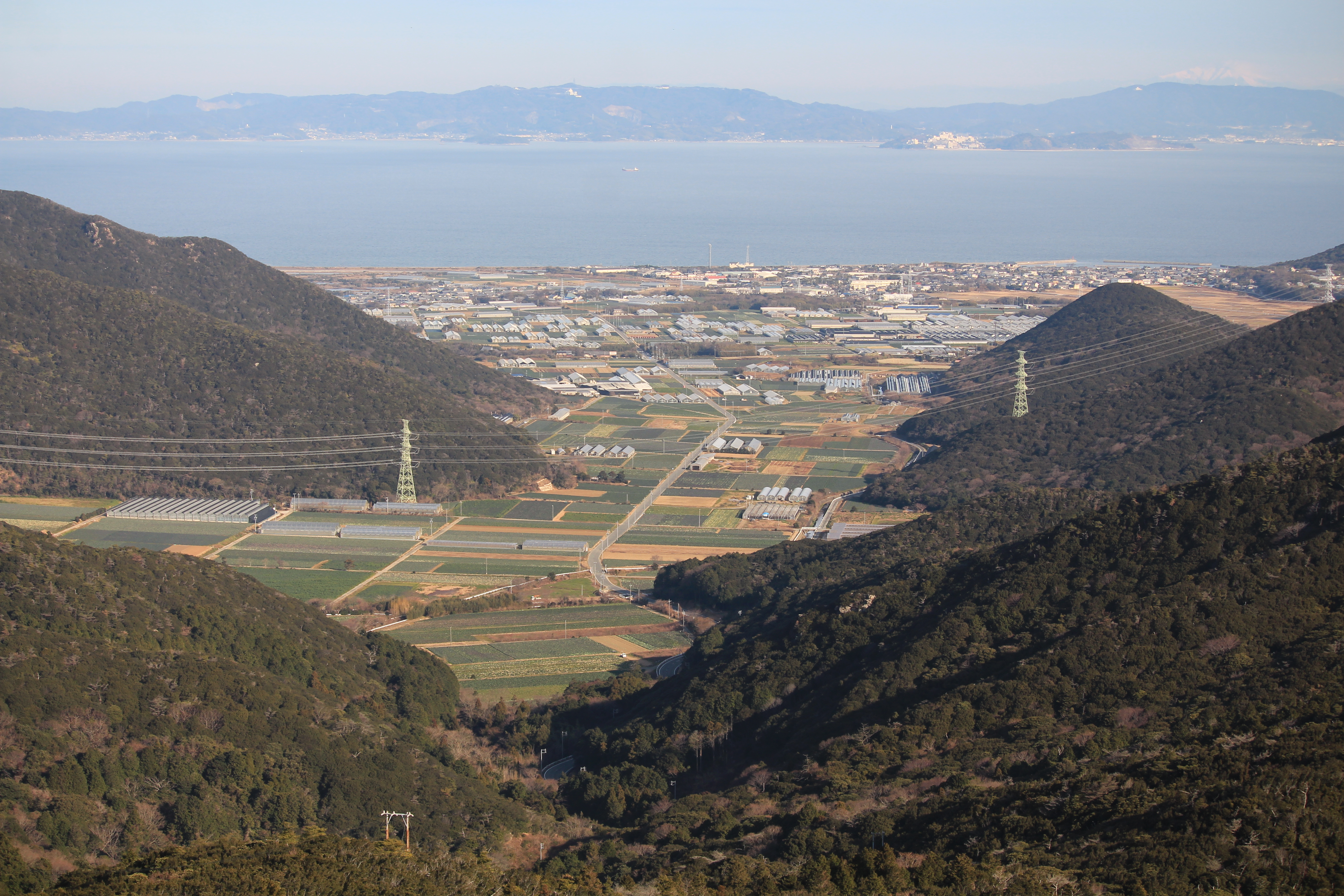 Fields seen from Mount Ō in Ikawadu-chō, Tahara, Aichi prefecture, Japan.